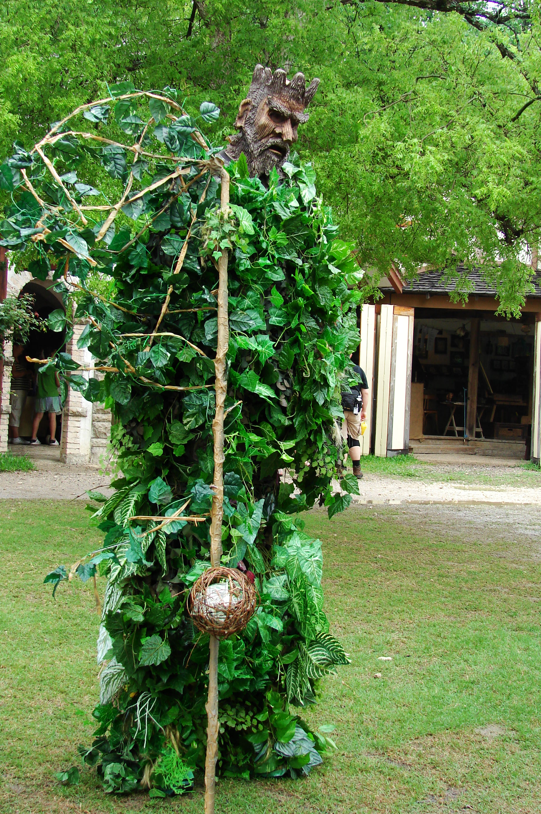 Costumed Ent character at Scarborough Renaissance Festival (Waxahachie, Texas)